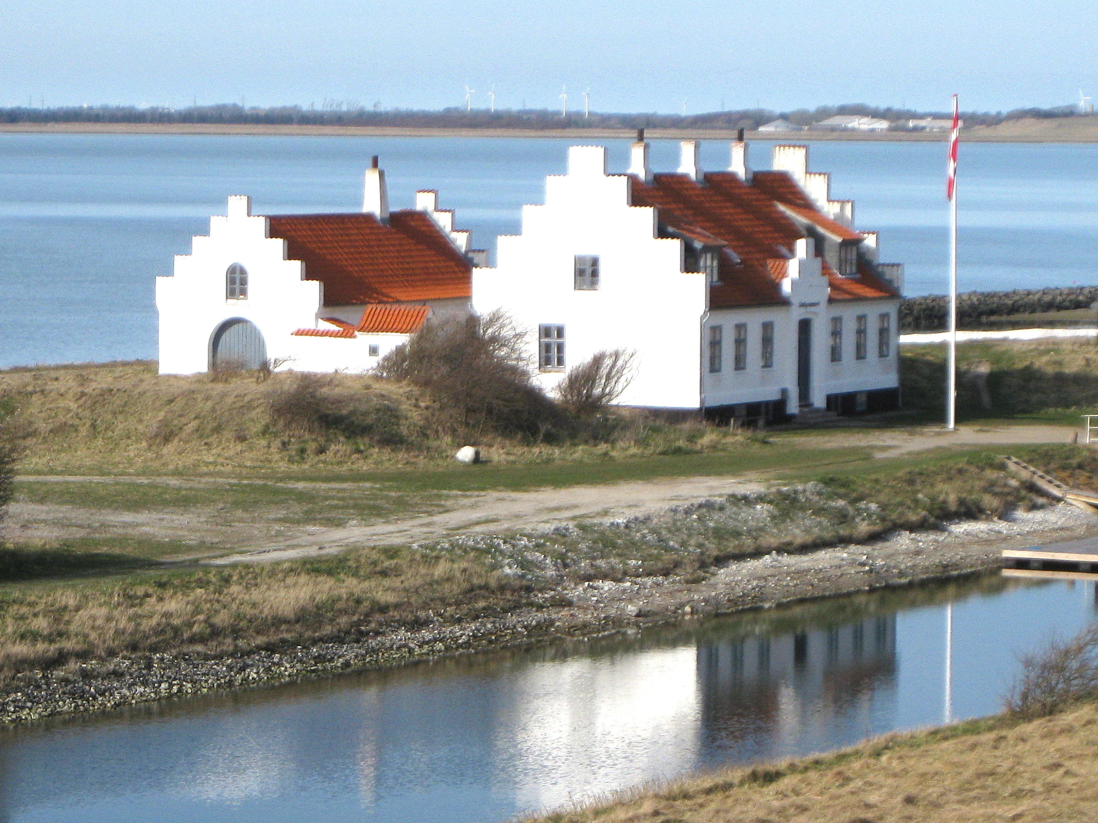 The museum "Limfjordsmuseet" in the small town "Løgstør". The town is located in North Jutland, Denmark.